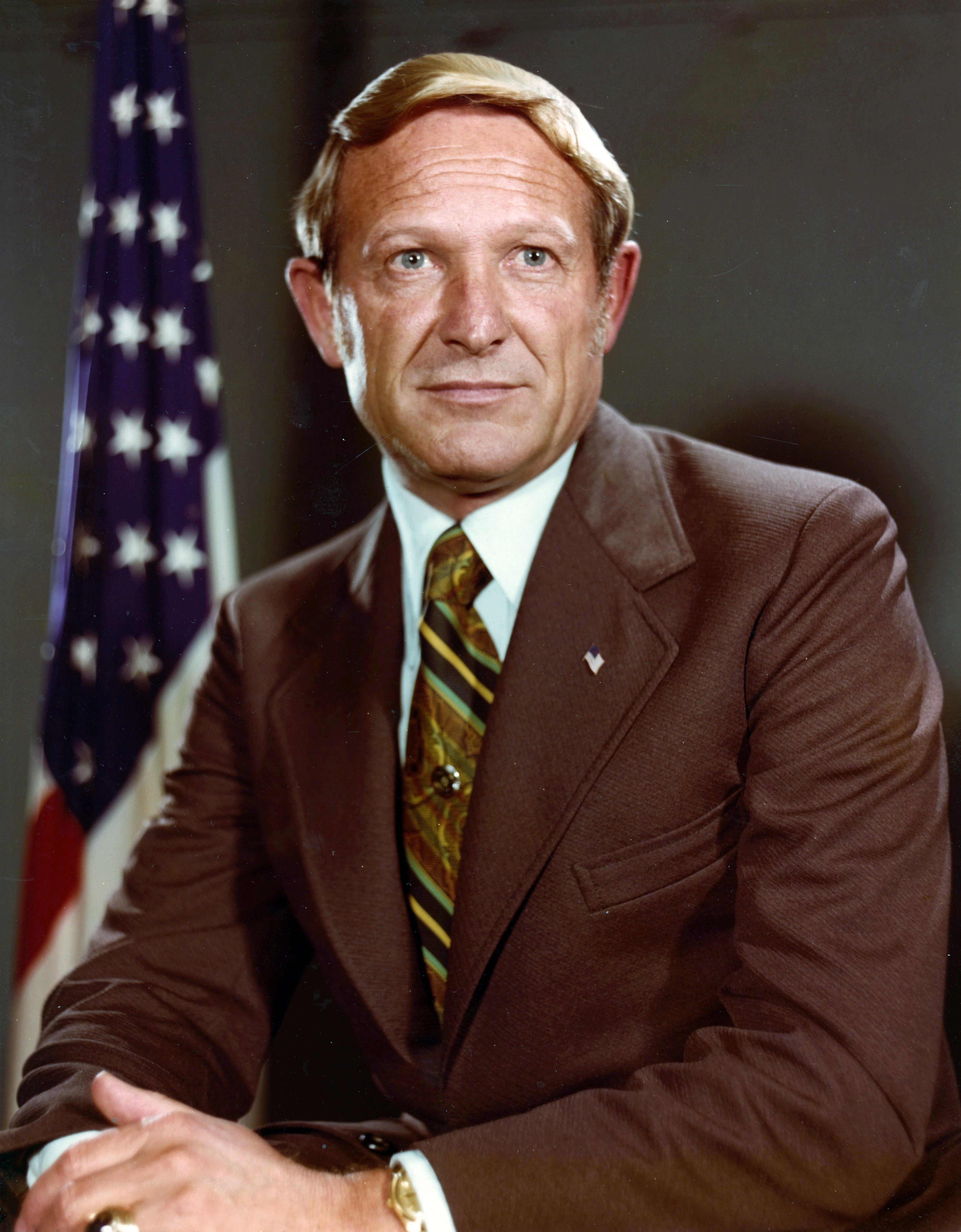 A color portrait of Congressman Floyd Spence taken in 1976. Spence represented South Carolina's 2nd district from 1971 to 2001.